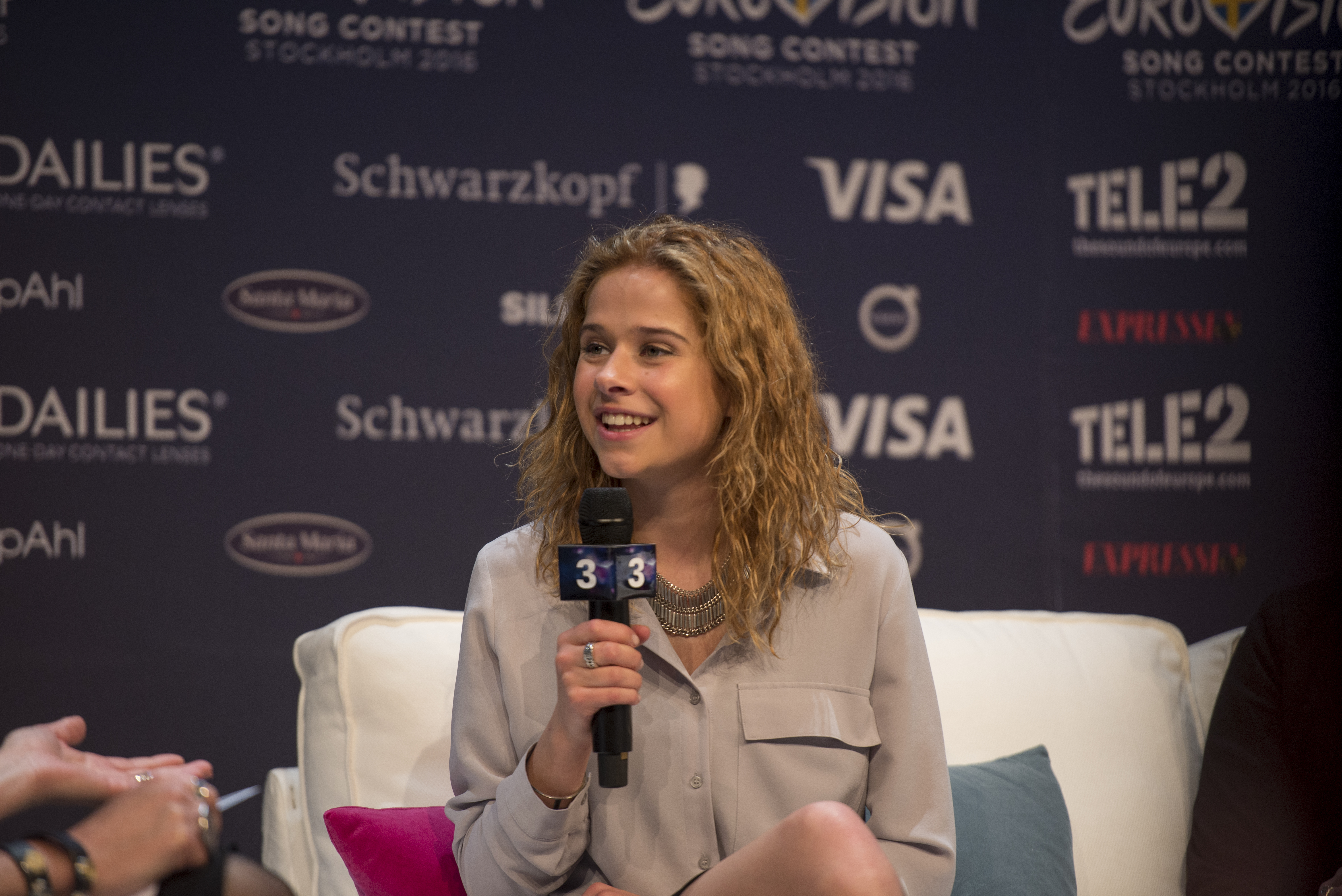 Laura Tesoro at a Meet & Greet during the Eurovision Song Contest 2016 in Stockholm. (Help translate this text)